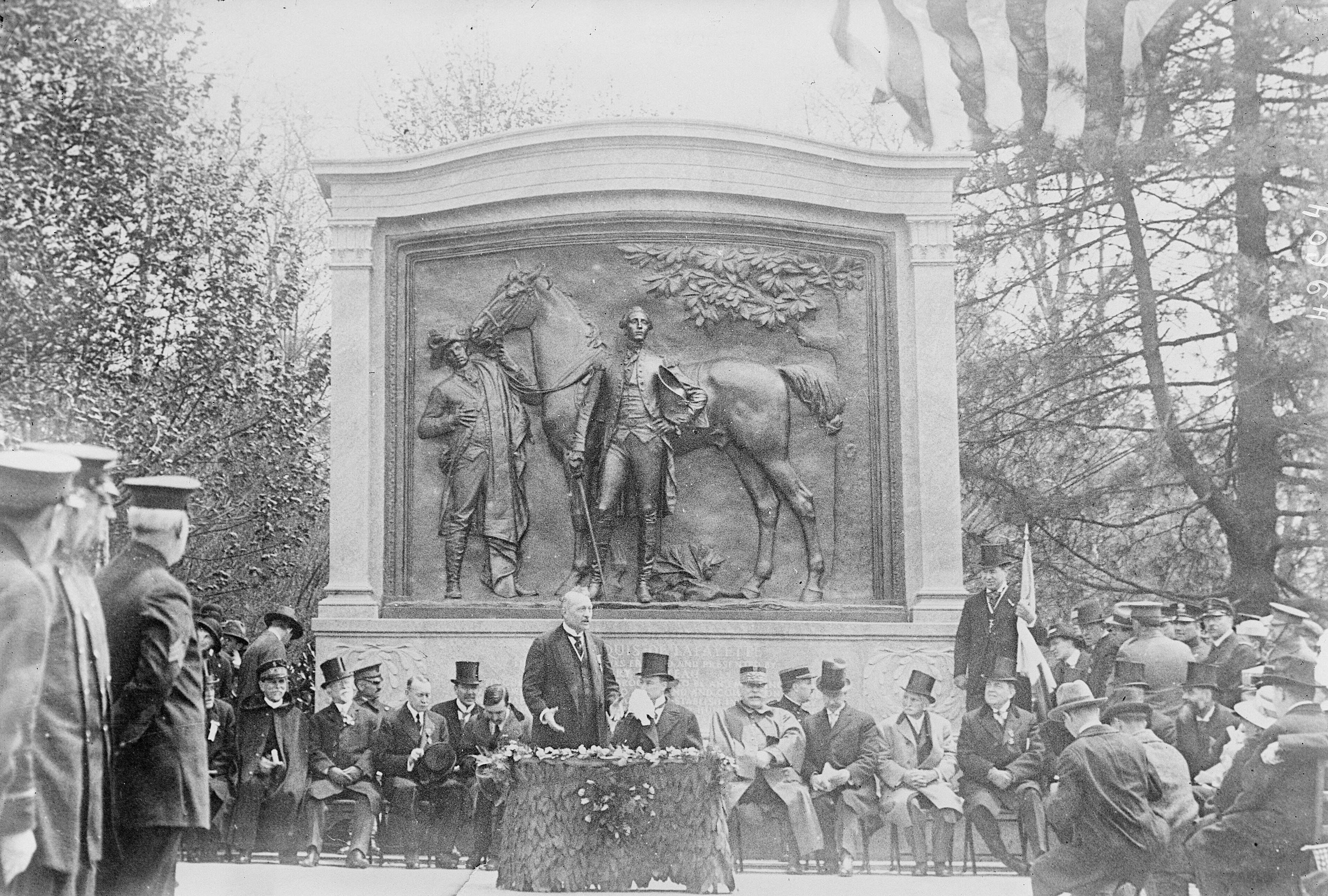 Joffre and Viviani in the United States